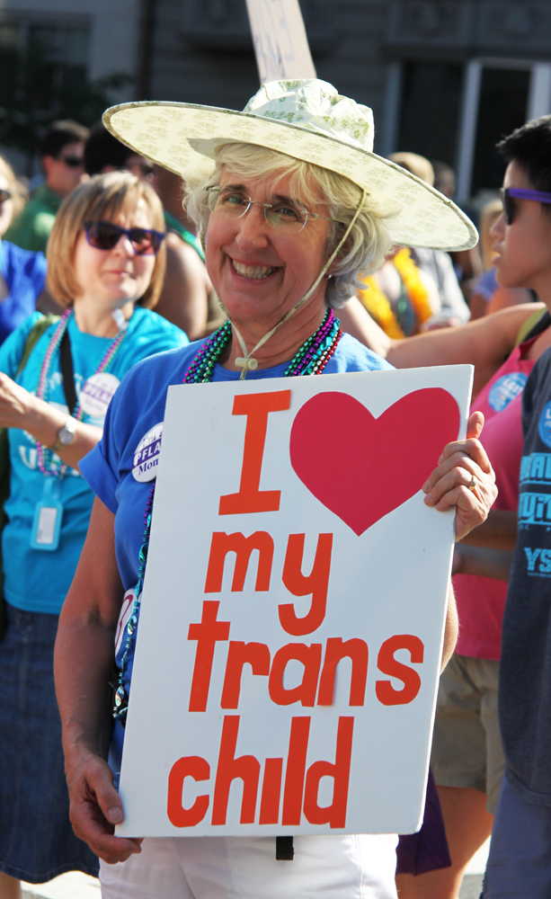 Another happy PFLAG parent! At the Capital Pride parade near Dupont Circle in Washington, D.C., in the United States on June 9, 2012.